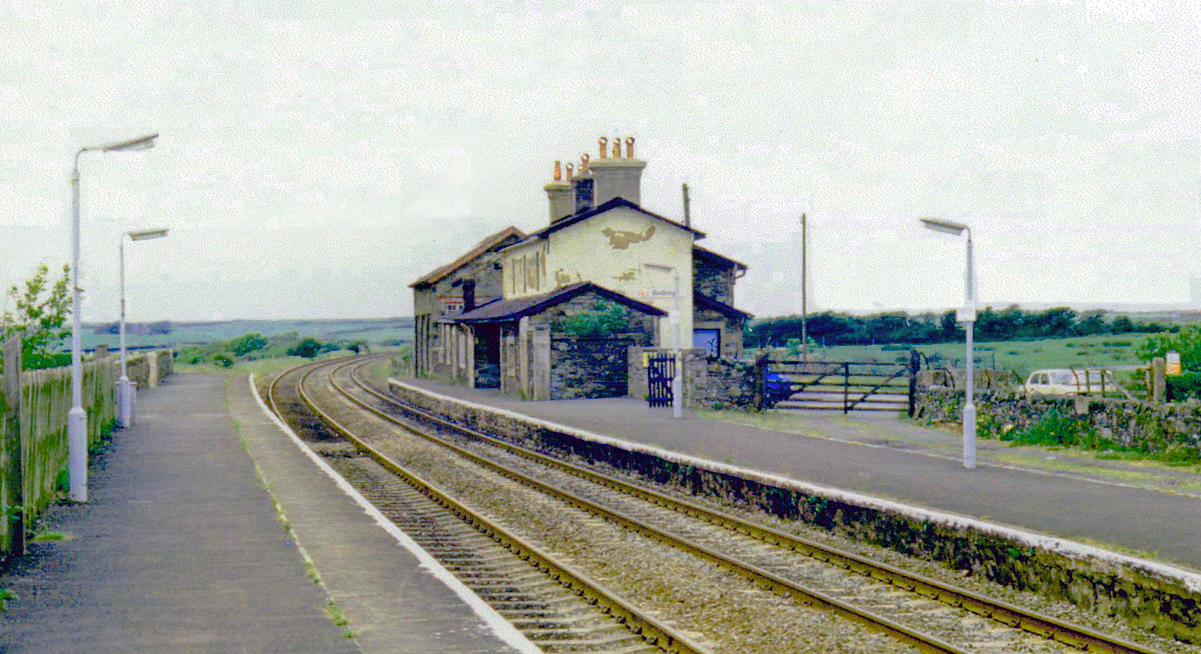 Bodorgan station, 1986. View NW, towards Holyhead: ex-LNWR Chester - Bangor - Holyhead main line. This a rare wayside station that has been retained owing to its remoteness.